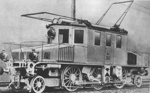 Electric locomotive RA 361 Ganz for the line of Valtellina, 1904. 3 phases 3000 V 15 Hz.